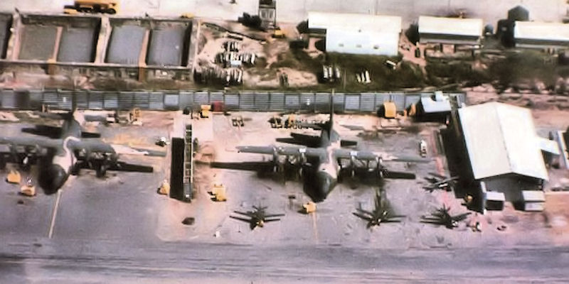 556th Reconnaissance Squadron revetments at Bien Hoa AB, South Vietnam. C-130s and AQM-34 drones visible